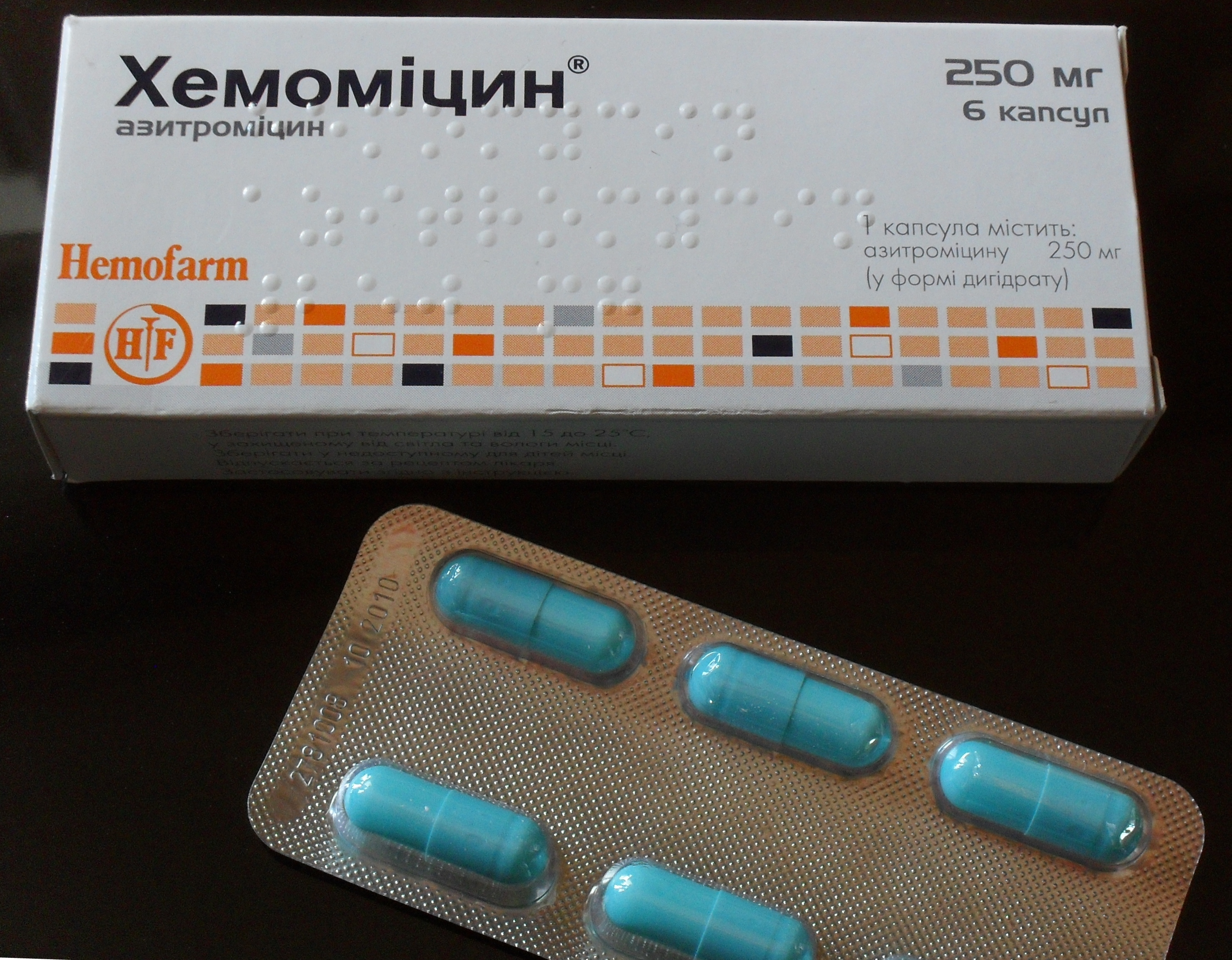 Azithromycin 250mg capsules